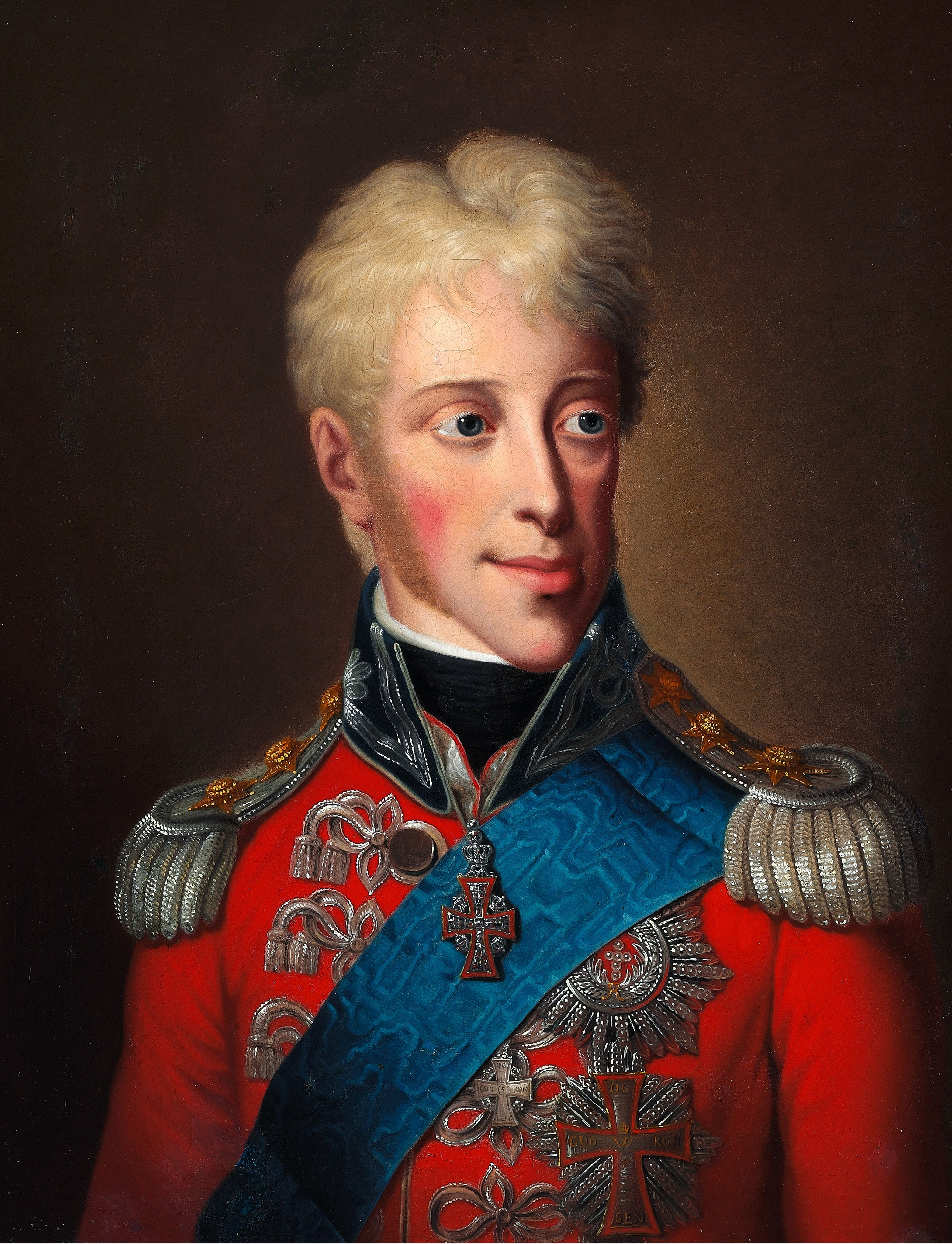 Portrait of Frederik VI (1784-1839) in gala uniform wearing the Order of the Elephant, a silver merit cross and badge and breast star as a Grand Commander of the Order of Dannebrog. After F. C. Gröger's portrait dated 1809